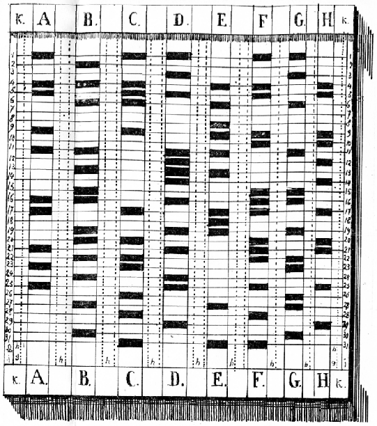 Semen Korsakov's punch card he proposed in 1832